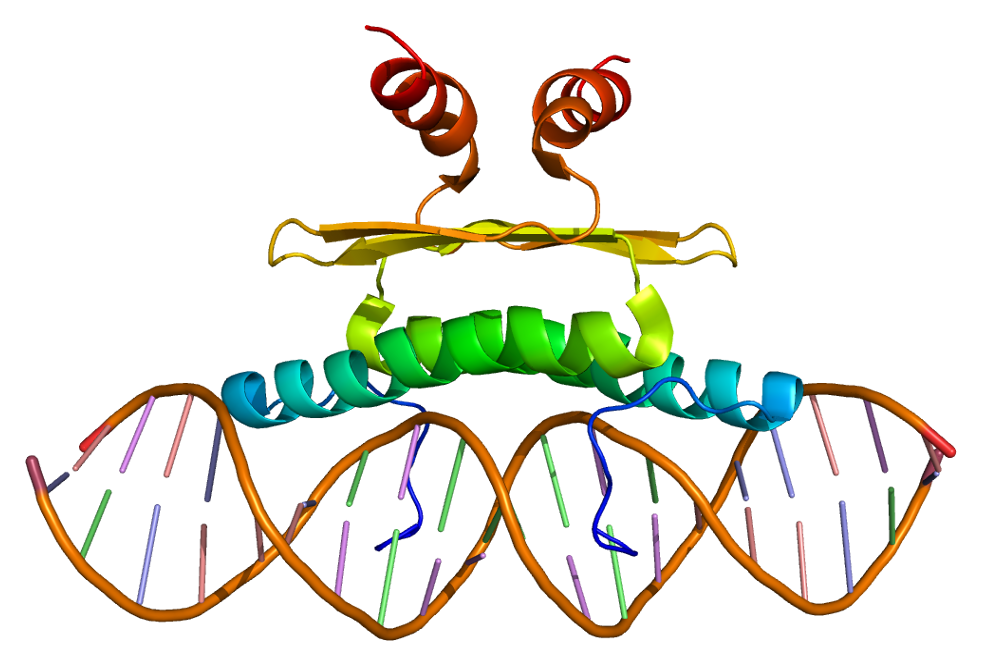 Structure of the MEF2C protein. Based on PyMOL rendering of PDB 1c7u.